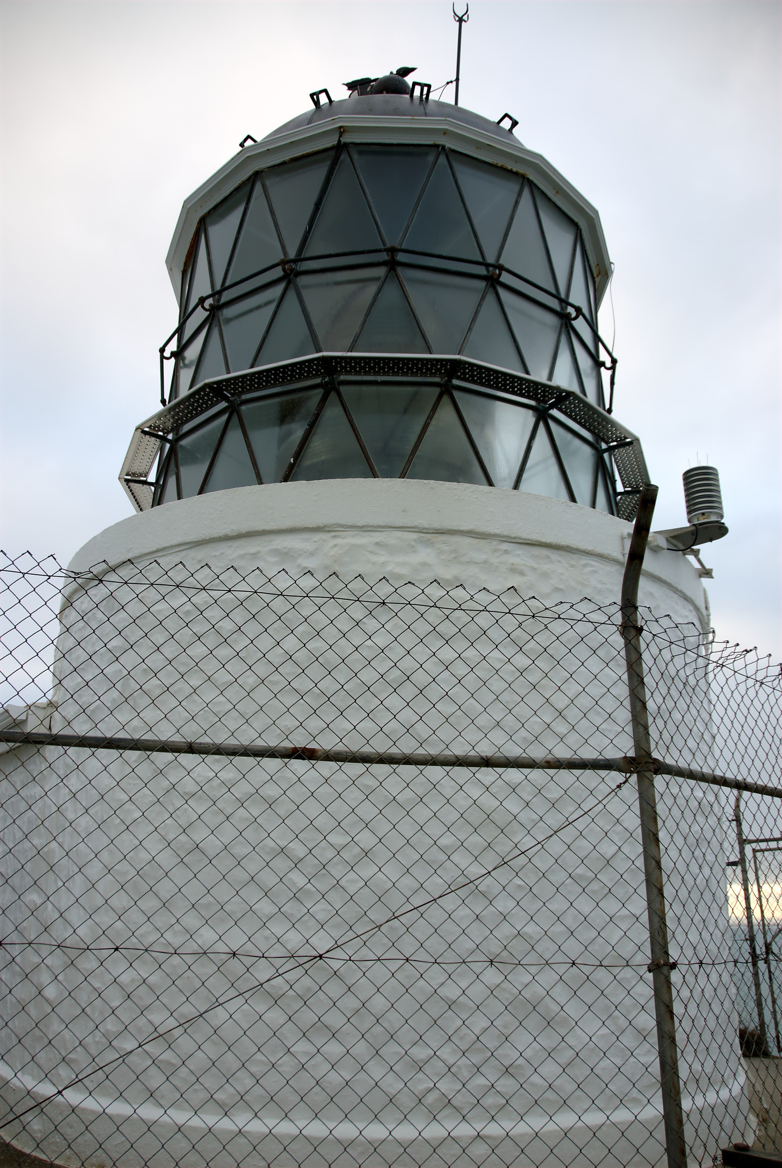 Nugget Point Lighthouse